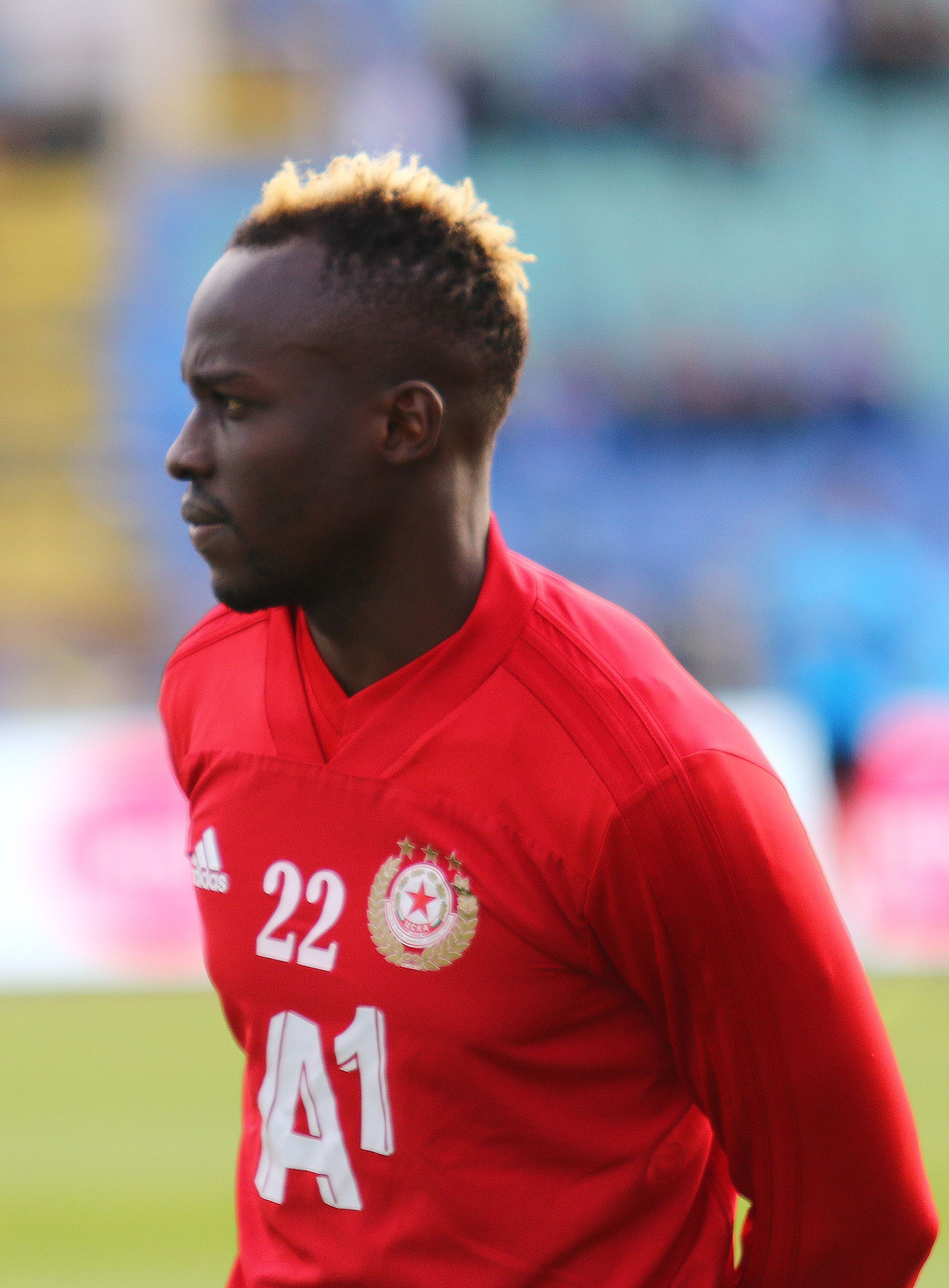 Ali Sowe (born 14 June 1994) is a Gambian professional footballer who currently plays as a forward for Bulgarian club CSKA (on a loan from Chievo) and the Gambia national team.